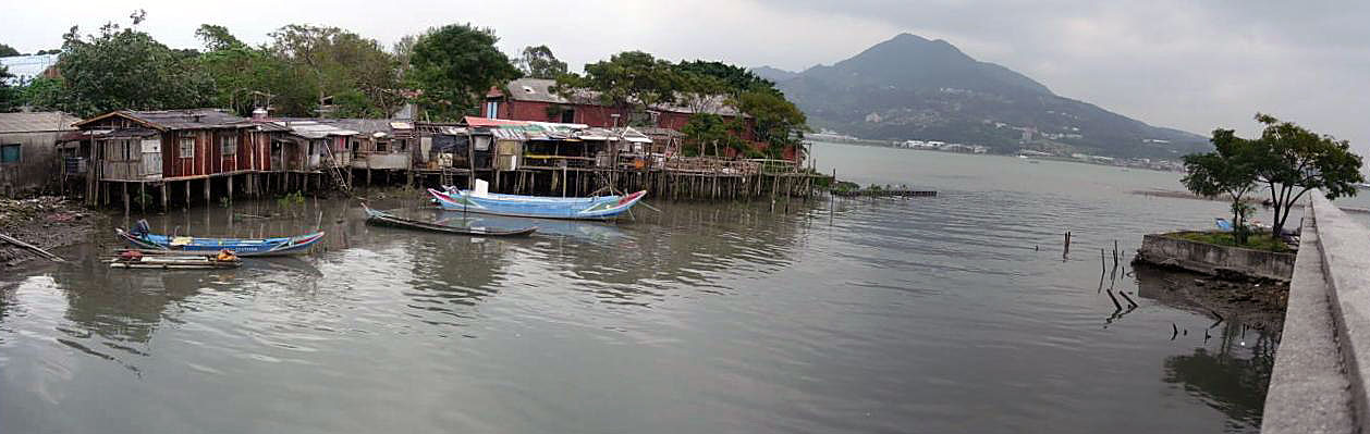 Dan Shuei Duck